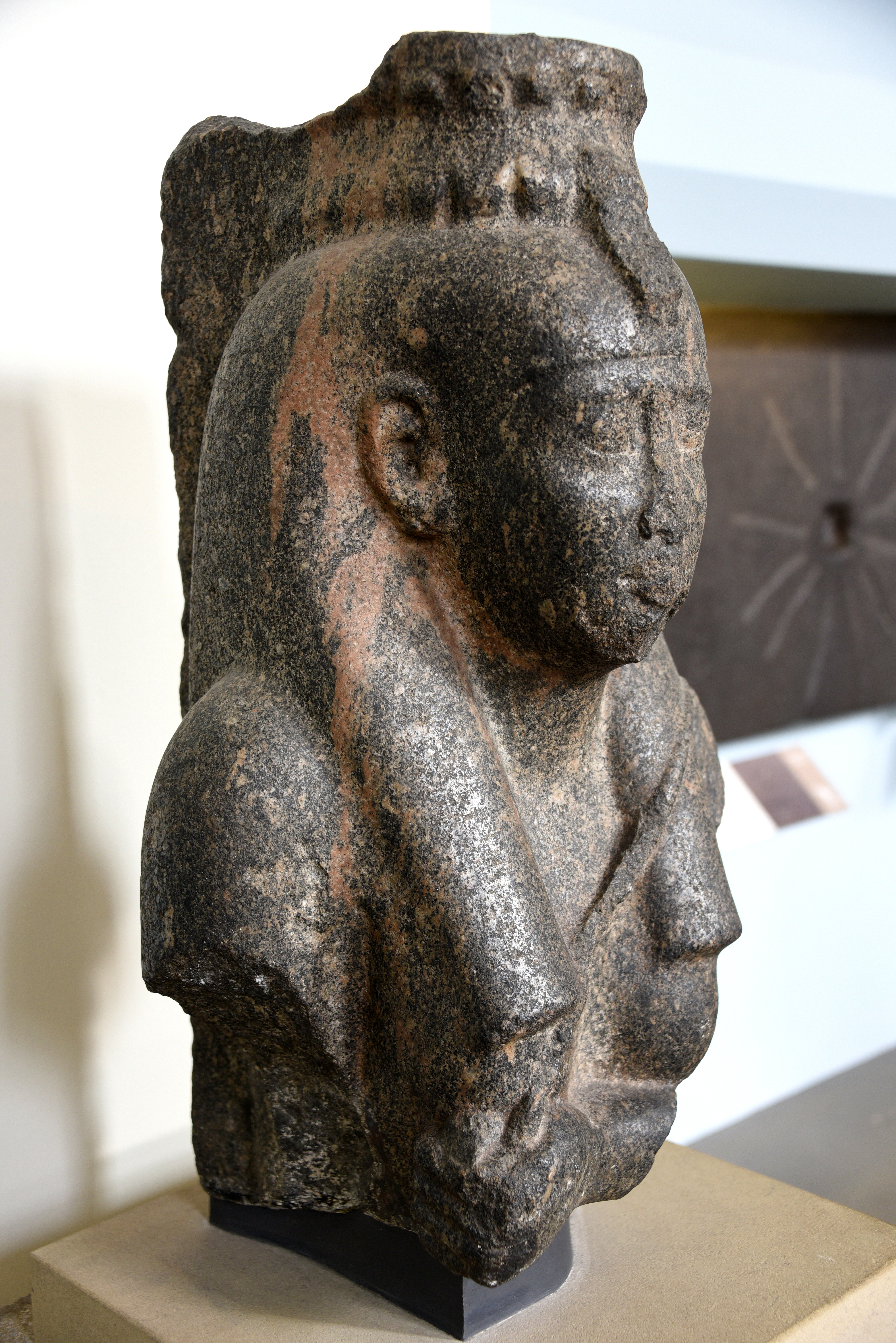 Upper part of the the statue of Tasherenese (Tashereniset). The hieroglyphic inscriptions on the back-pillar identify her as the 'King's Mother". 26th Dynasty, reign of Amasis II, 570-526 BCE. From Egypt; precise provenance of excavation is unknown. It is currently housed in the British Museum, London.